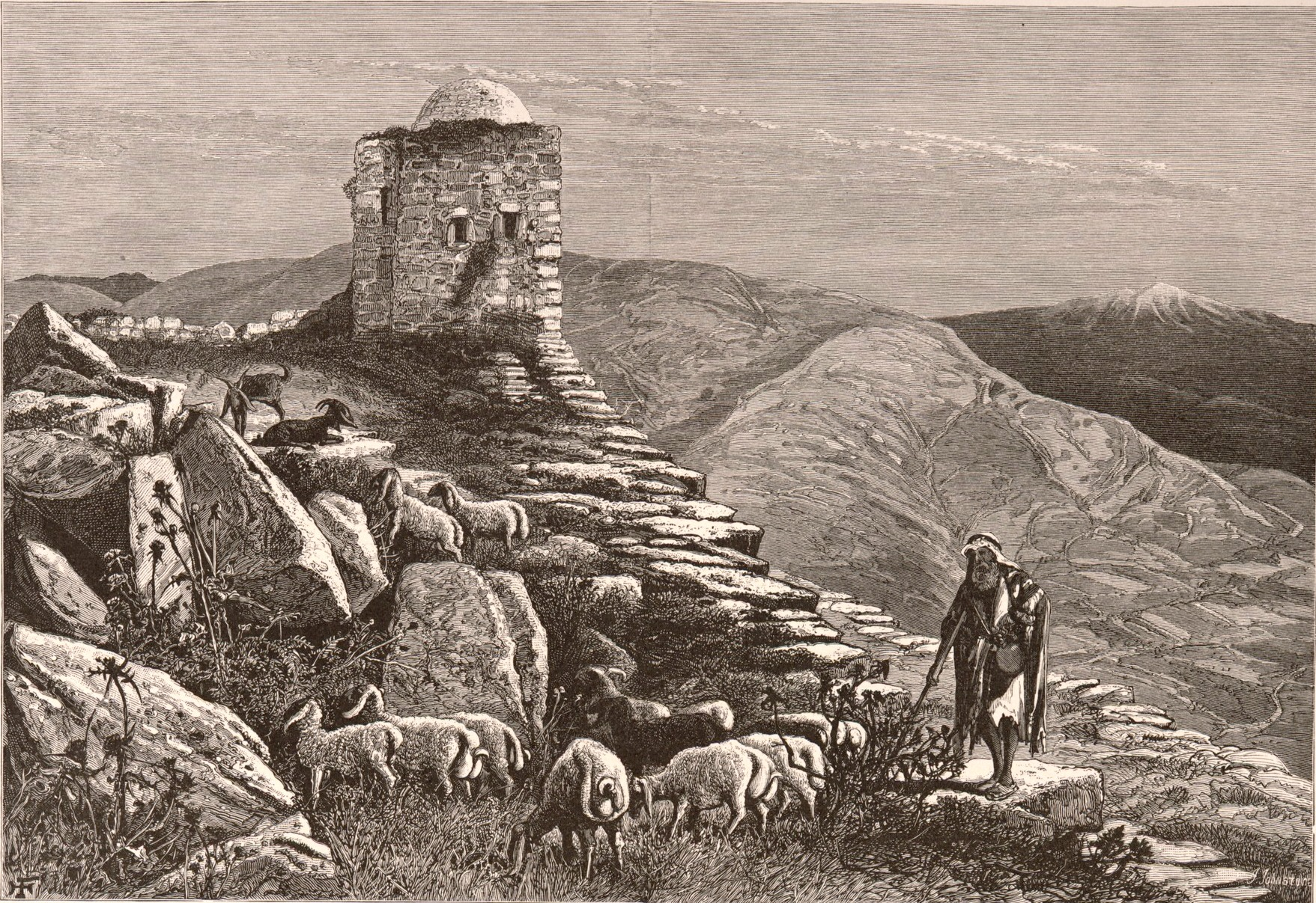 Ruins on the summit of Mount Gerizim, on the site of the Samaritan temple. In the distance, on the right, the snow-covered peaks of Mount Hermon are visible.